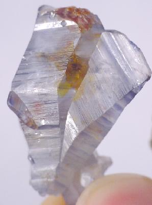 Corundum Locality: Ratnapura, Ratnapura District, Sabaragamuwa Province, Sri Lanka (Locality at ) Size: thumbnail, 3 x 2 x 1.2 cm SAPPHIRE on SAPPHIRE (twinned) This incredibly unusual specimen features a 1.7-cm blue sapphire crystal perched atop an inverted, twinned sapphire crystal! Or, if you display it another way, a twinned crystal with a crossing normal sapphire at its base (probably the best viewing angle in person as the narrow end of the twin has a missing point though it is hidden from view by tthe crossing sapphire crystal). Either way, its neat and weird at the same time. A gemmy, bright sapphire with excellent form, interesting and highly attractive striations , and pale but distinct blue color! DOUBLY-TERMINATED FLOATER and quite nice for the price, I thought!